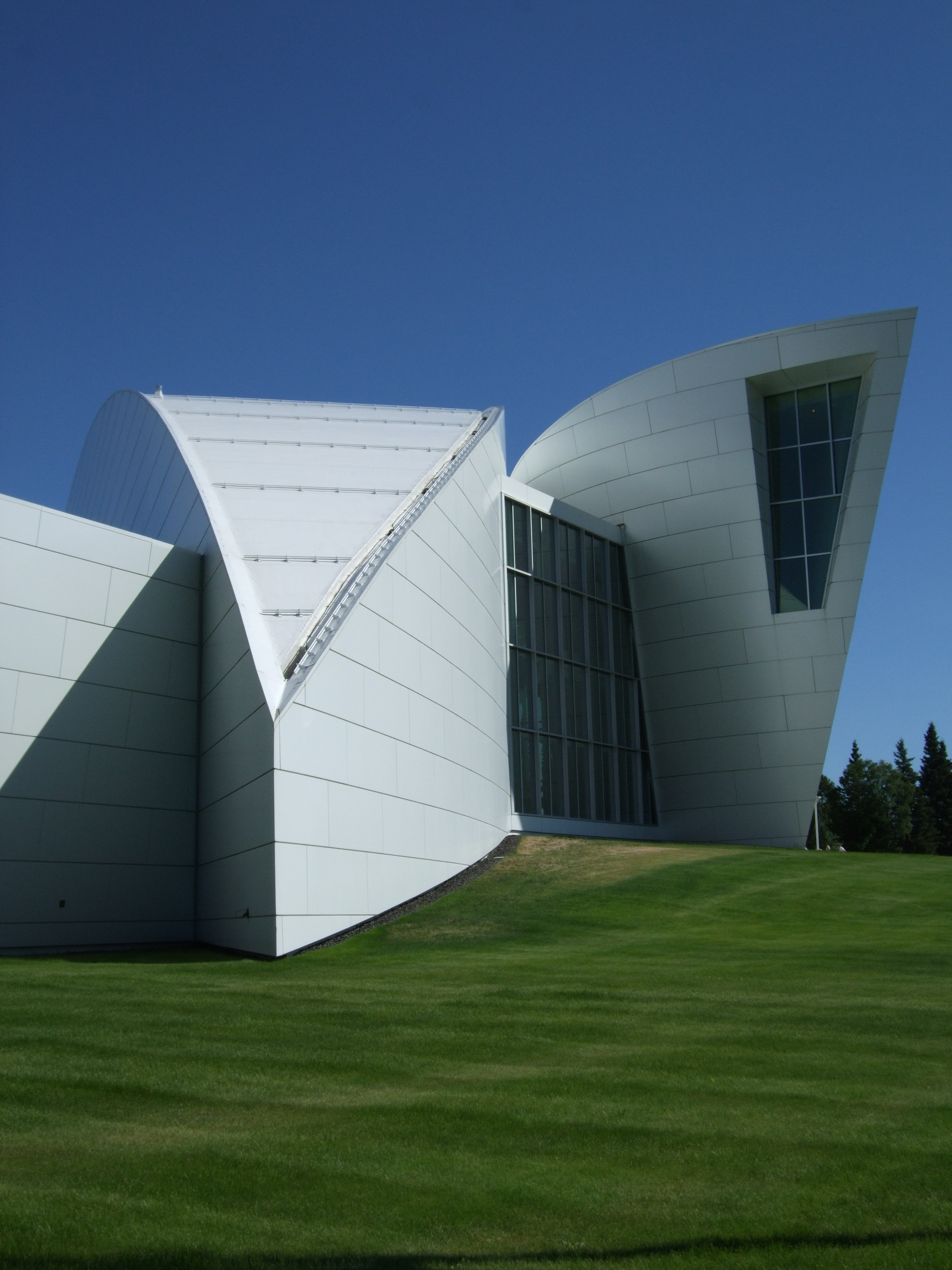 University of Alaska, Fairbanks campus